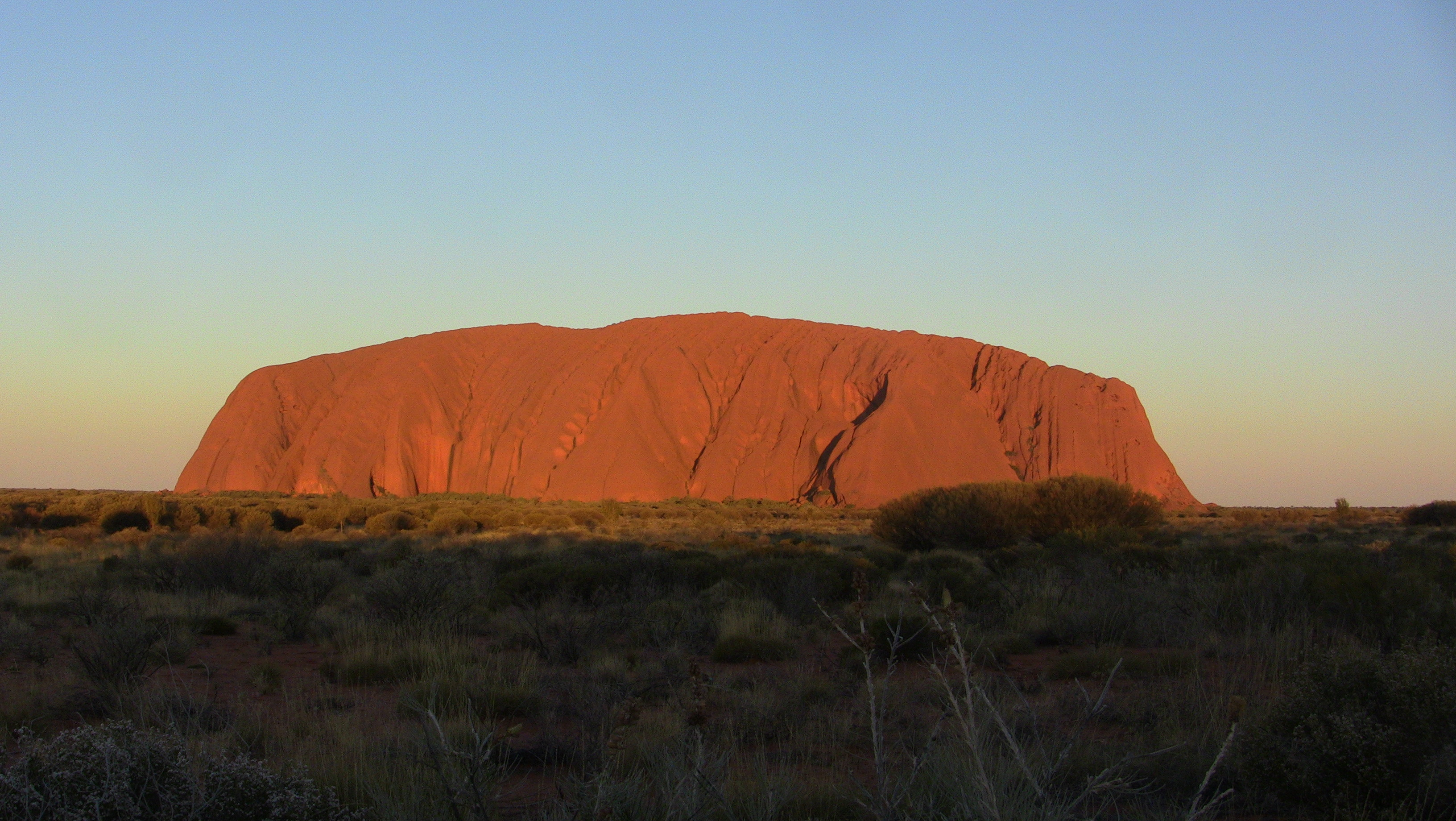 Uluru